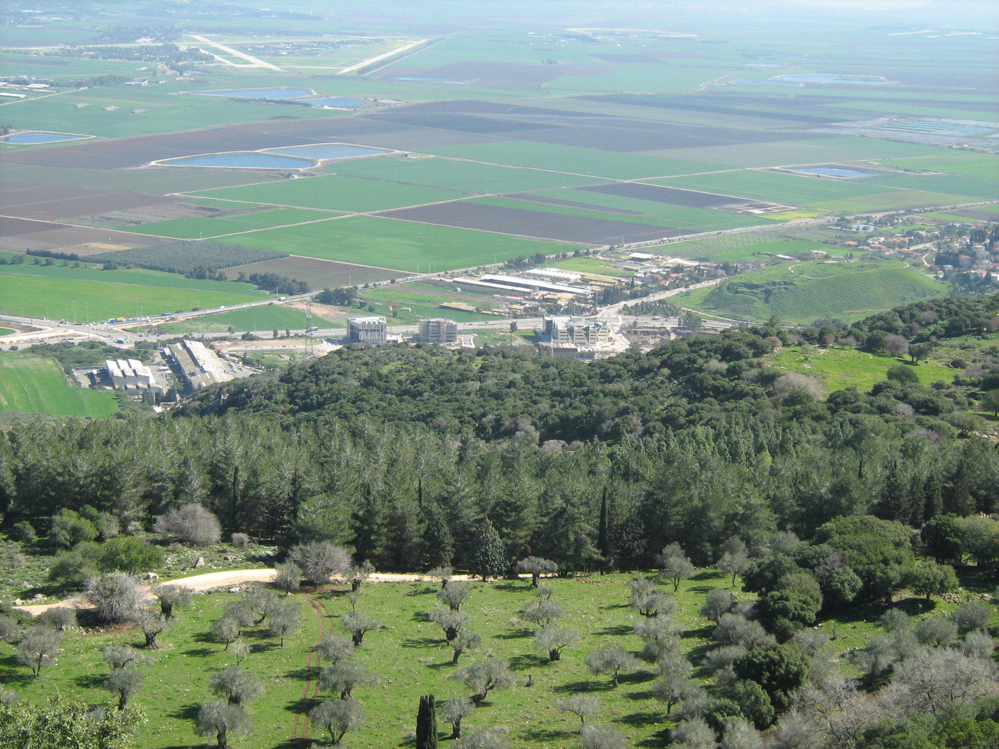 המראה מגג המנזר בקרן הכרמל, at the front of the picture are some big buildings in the Yokneam industrial zone and on a part of the Moshava Yokeam. Far away leaning to the right is the Kfar Baruch water resorvoir.